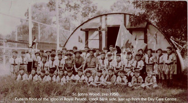 St. John's Wood Scouts, 1945. Cubs in front of Army Quonset Hut in Royal Parade, St. John's Wood. Creek bank side, just up from present day Child-care centre. Theod Tennis Courts in the background. The US army built those Army Quonset Huts during WWII.